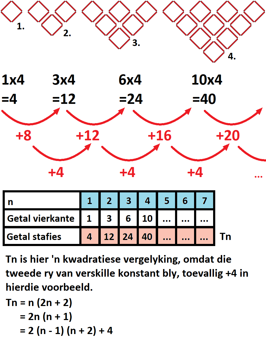 A geometric number pattern consisting of bars and squares produces a number sequence. The differences for successive number pairs in the sequence are calculated. It is found that the "first differences" are not identical, but the second differences are constant, which suggests a quadratic solution for any number Tn in the sequence. The quadratic solution is shown, expressed in three different ways.